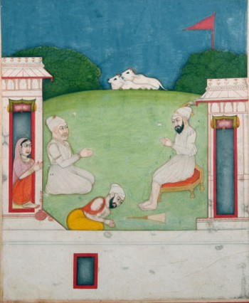 Guru Angad Receives Homage